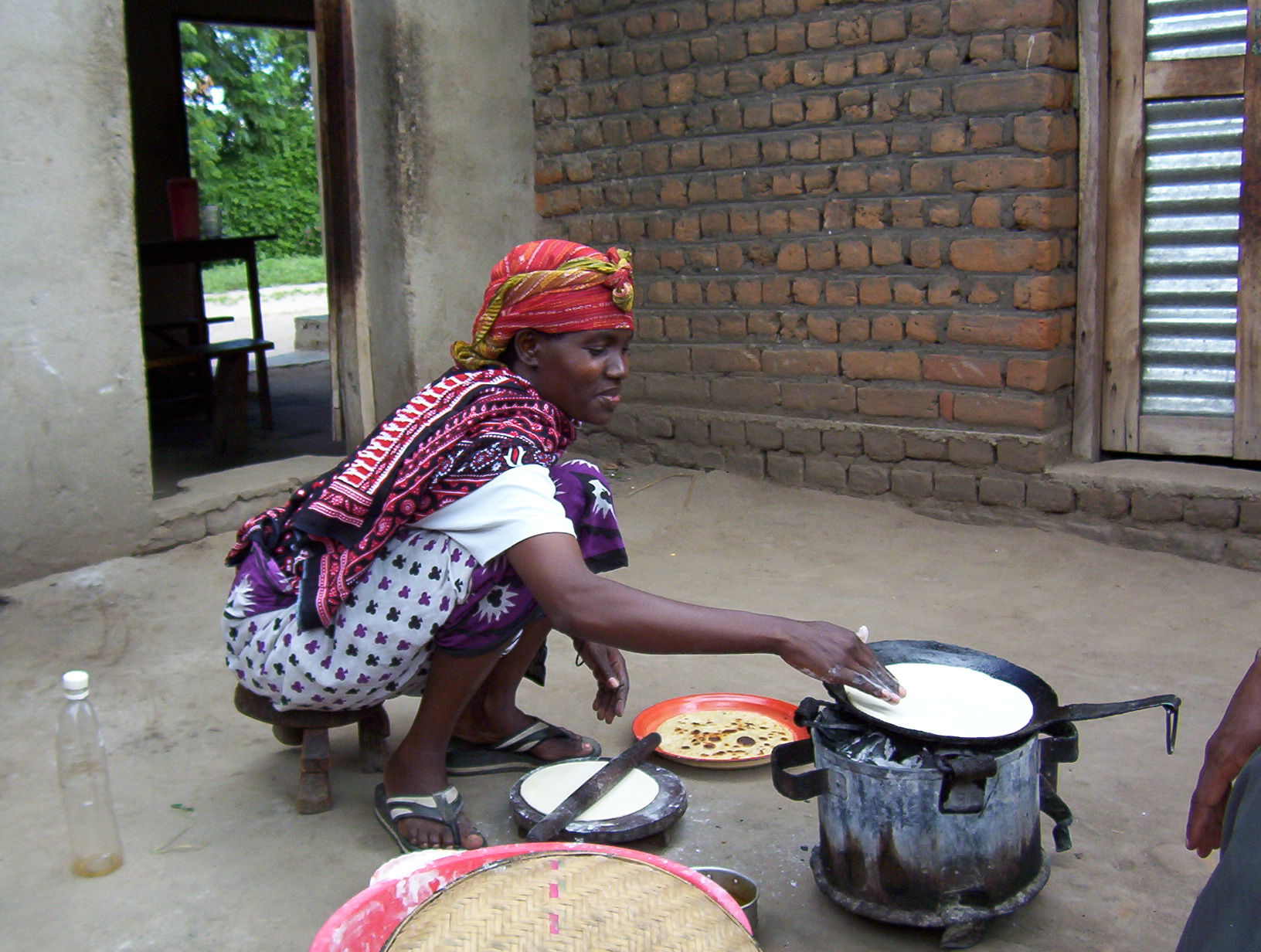 a Rangi woman baking chapati for her tea house in central Tanzania Kiswahili: mwanamke Mrangi akioka chapati kwa hoteli yake "Sosoliso" kijijini mwa Mnen'ya, wilaya ya Kondoa